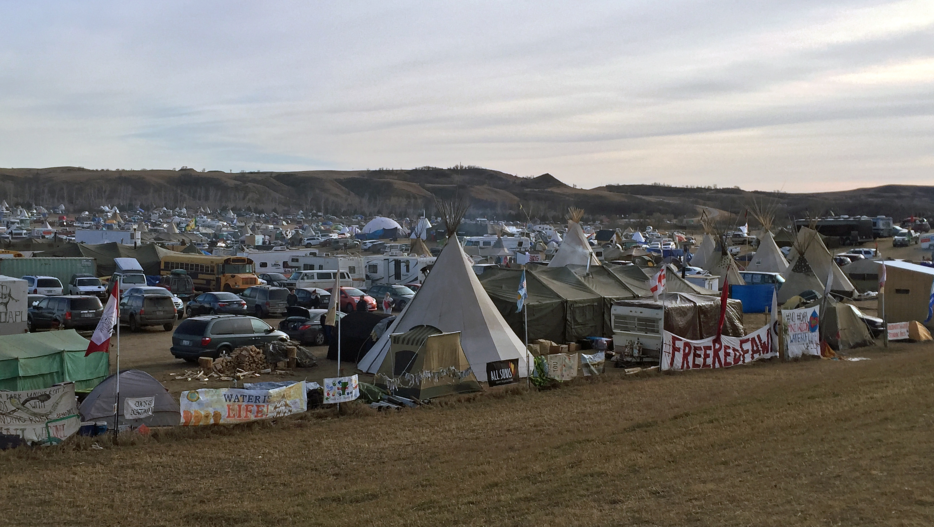 Signs in front of Oceti Sakowin Camp Standing Rock, Dakota Access Pipeline protests